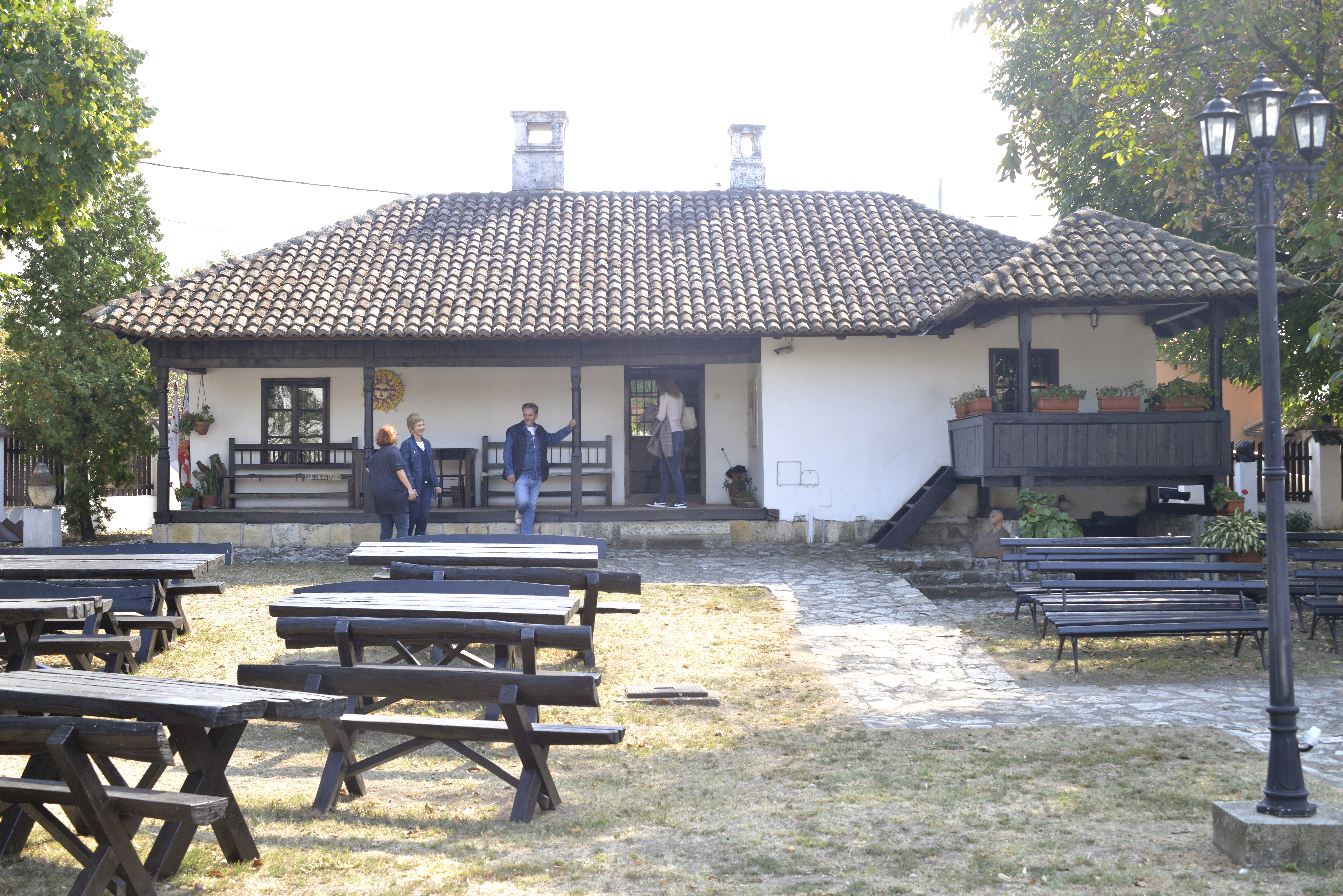 Rancic's house in Grocka, where the Center for Culture Grocka is located